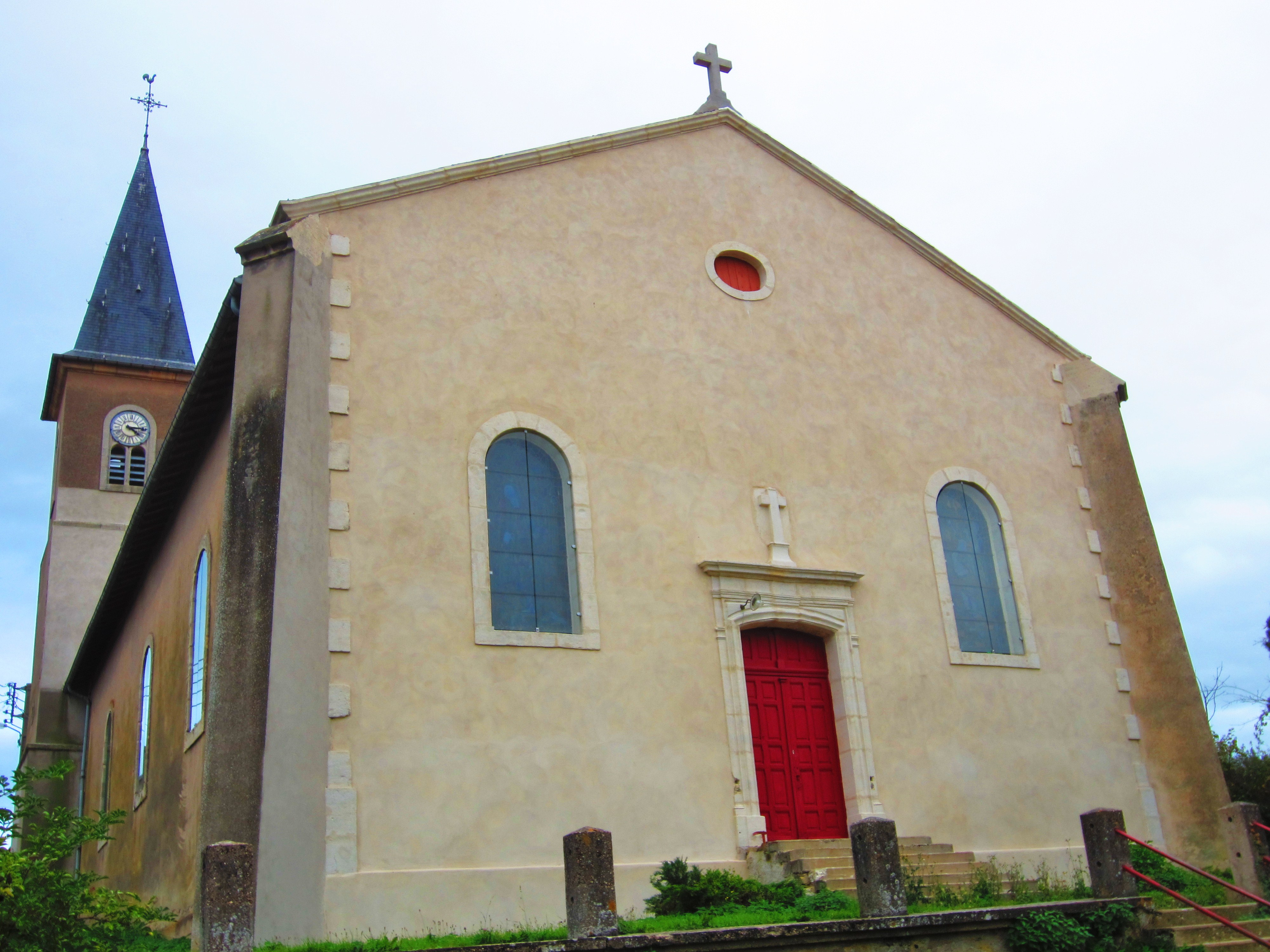 Thezey St Martin church